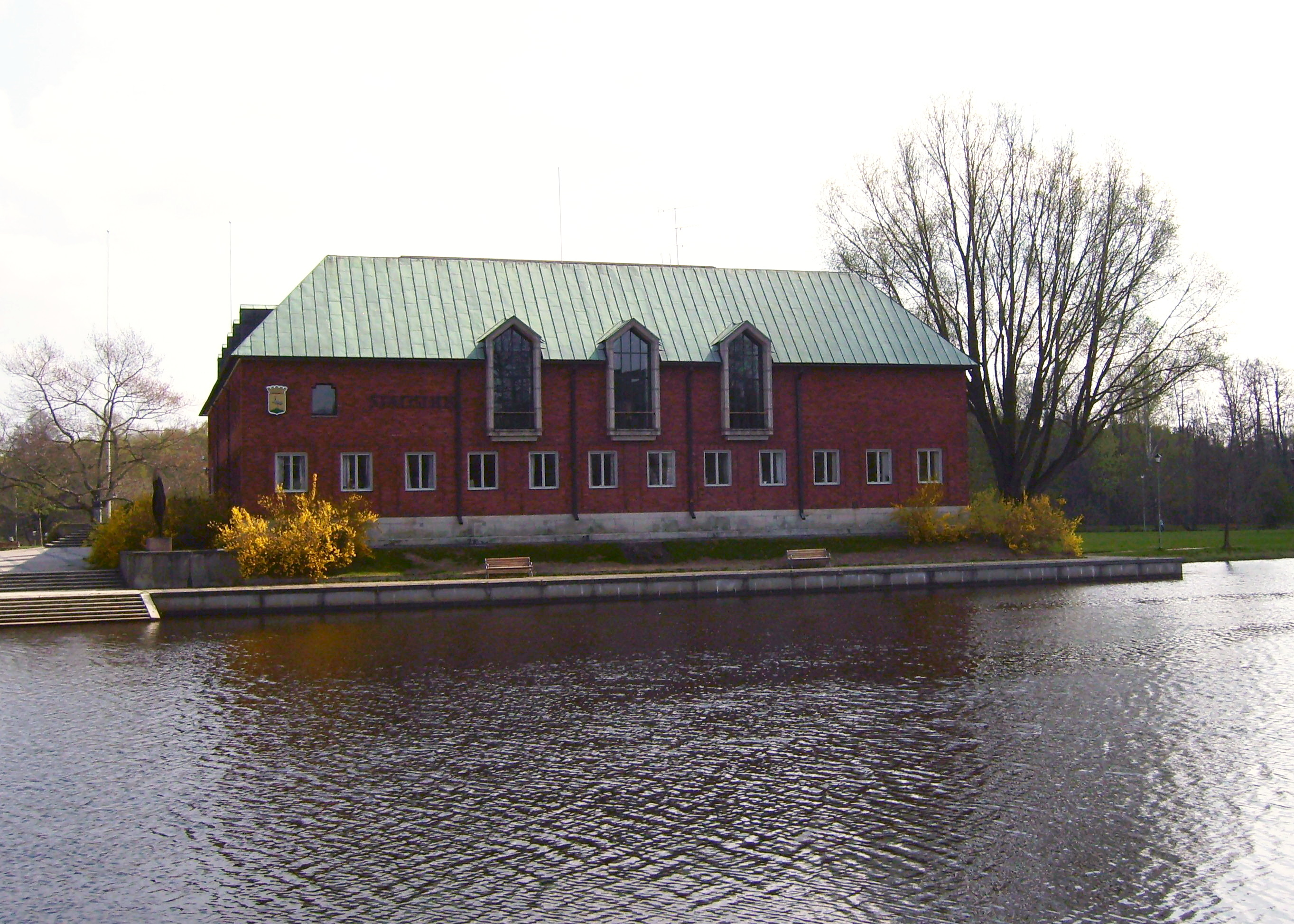 Photo by Harri Blomberg.